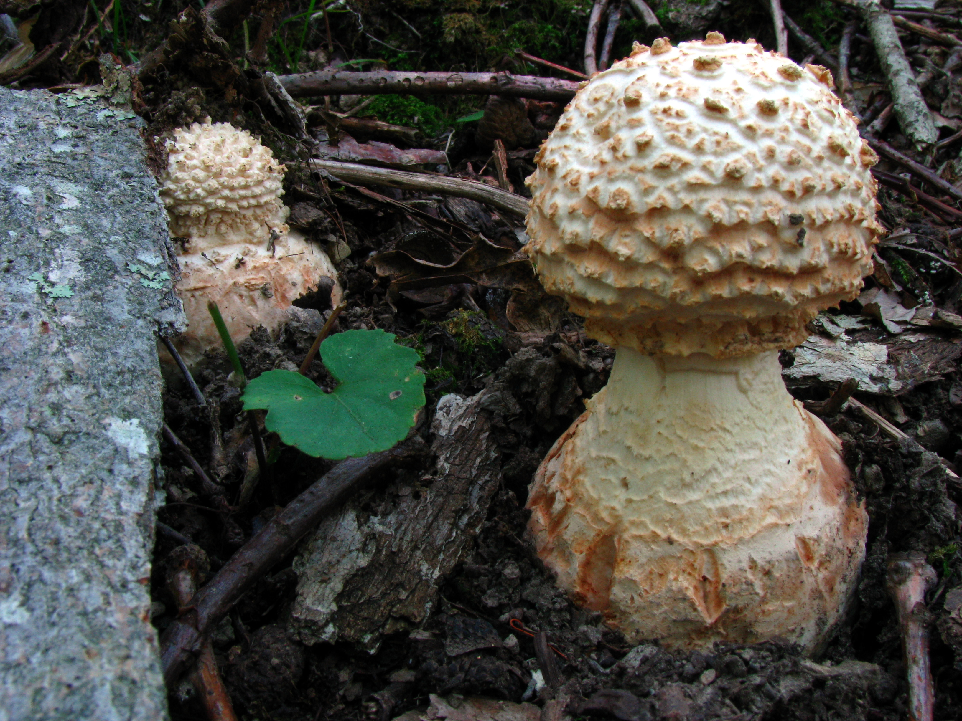 The mushroom Amanita daucipes (Mont.) Lloyd. Photographed in Babcock State Park, Fayette Co., West Virginia, USA.